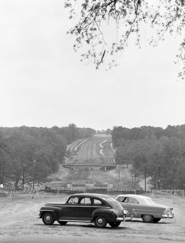 Persistent URL: Local call number: TD00340A Title: Construction of Apalachee Parkway in Tallahassee, Florida Date: April 1957 Physical descrip: 1 photonegative - b&w - 5 x 4 in. Series Title: Tallahassee Democrat Collection Repository: State Library and Archives of Florida 500 S. Bronough St., Tallahassee, FL, 32399-0250 USA, Contact: 850.245.6700